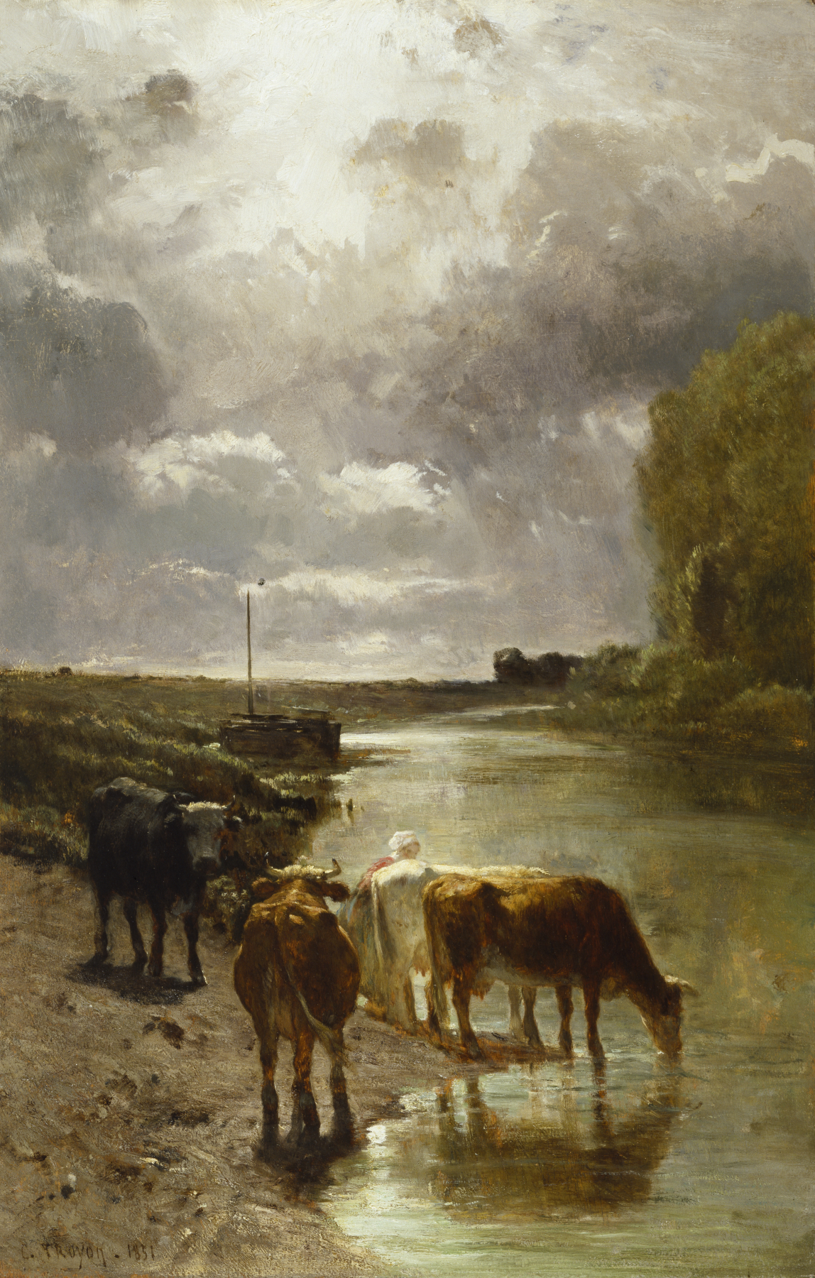 Troyon is best known for his animal paintings but, in fact, specialized in landscape painting in his early career. This picturesque view shows a scene on the banks of the Touques River in Normandy where he painted regularly in the 1850s together with Eugène Boudin and Emile van Marcke. The sun is directly overhead, fringing the clouds, shimmering on the water, and illuminating the backs of the cows. Troyon's mastery of light was admired by the young Claude Monet. So highly regarded was this river scene that it was included in an exhibition held in 1883 in the galleries of Georges Petit, Paris, to celebrate the world's alleged "One Hundred Masterpieces."